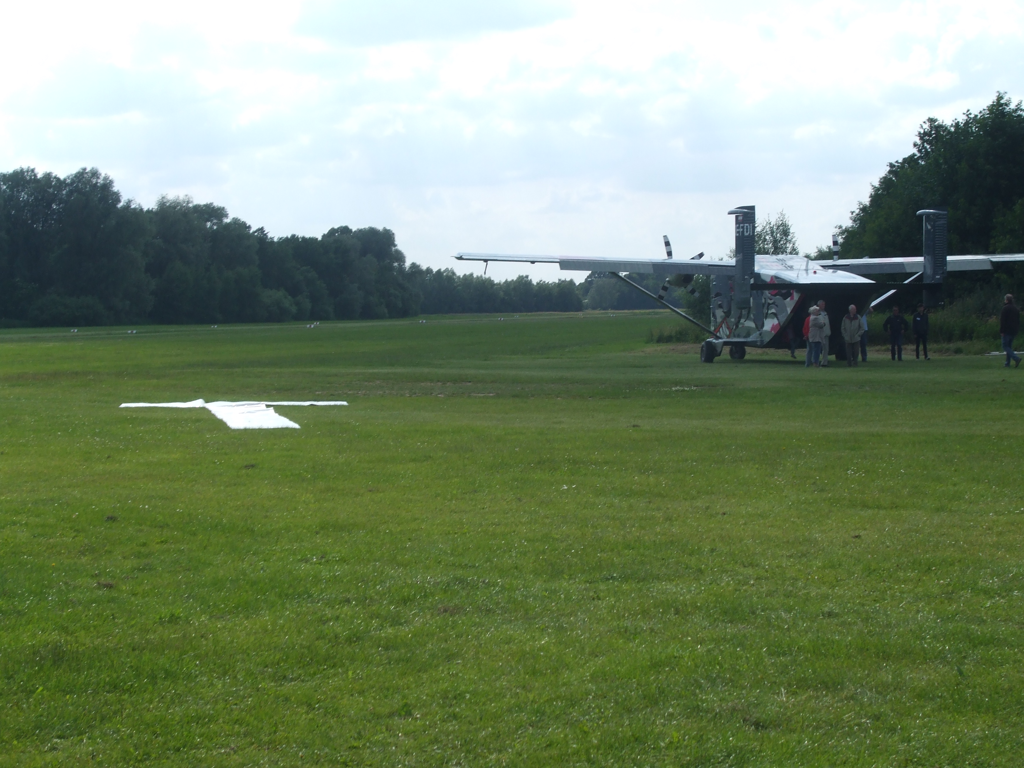 Today, mult-engine aircraft are a rare sight at the former World War II Luftwaffe airfield at Quakenbrück, Lower Saxony. This Austrian registered twin-engined Shorts Skyvan supported parachuters at today's glider air strip during an event in summer 2012. During the war the base hosted units operating twin-engined He-111s and Ju-88s amongst others.